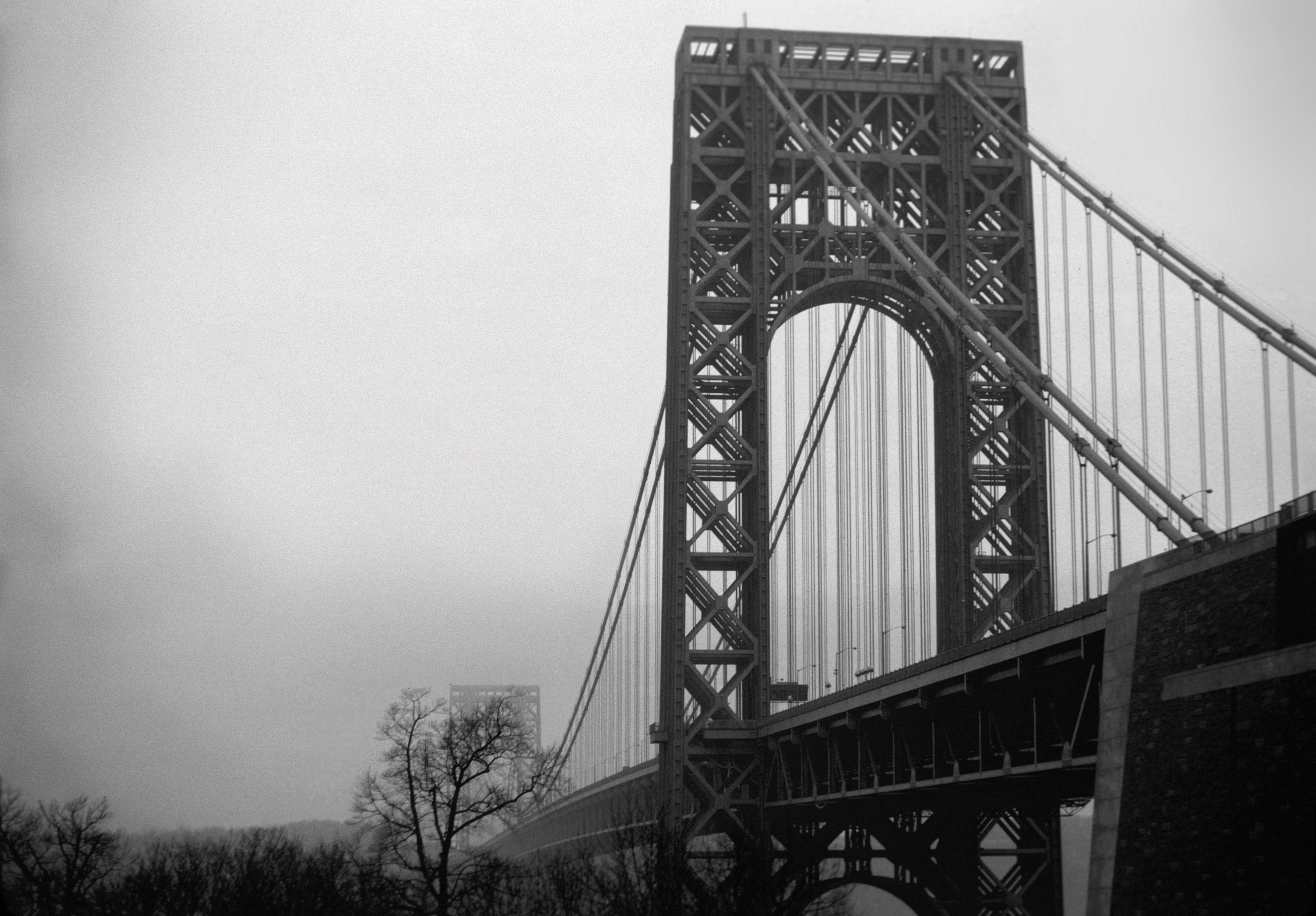 George Washington Bridge NYC Feb 1965 File from slide film